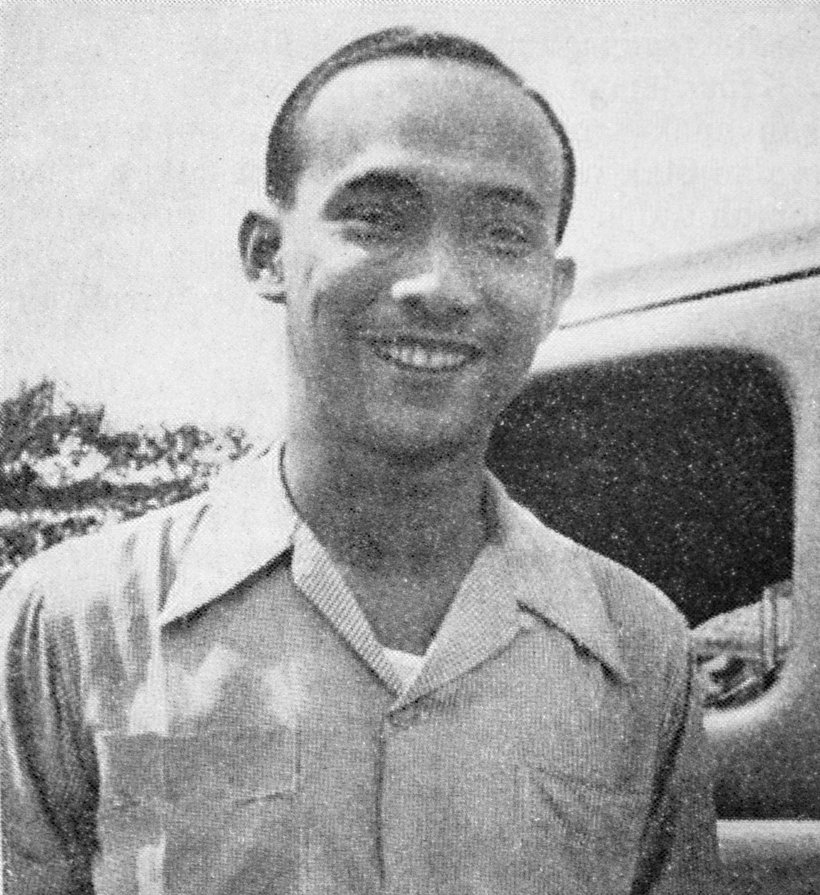 Indonesian comedian Bing Slamet in a promotional still